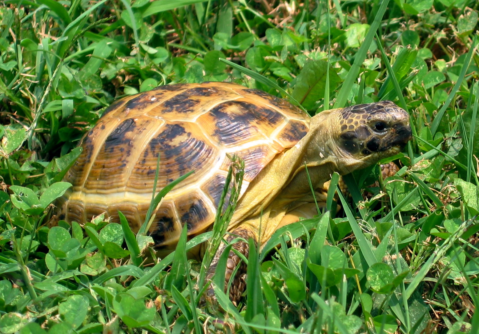 Testudo horsefieldii